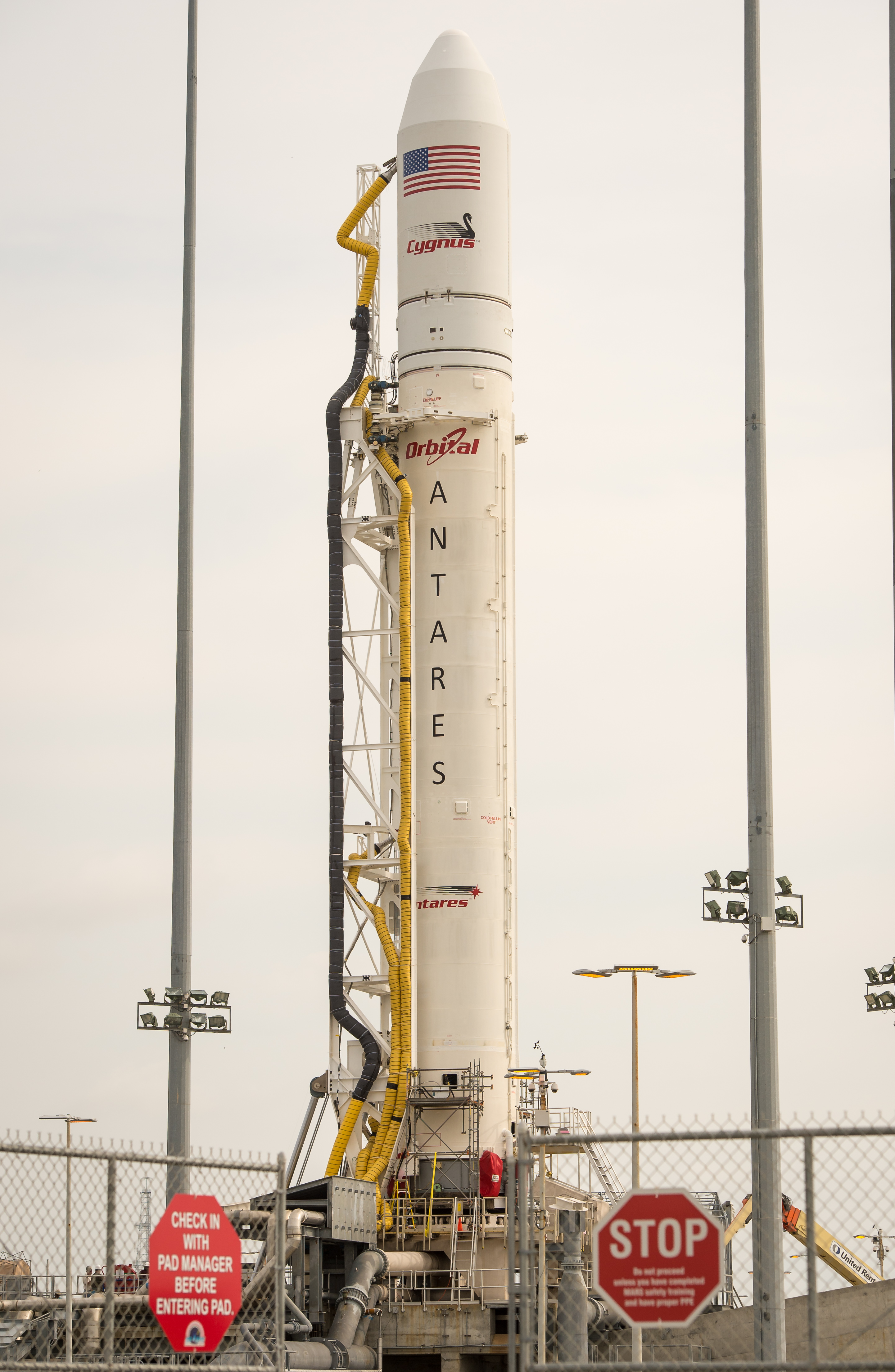 The Orbital Sciences Corporation Antares rocket, with its Cygnus cargo spacecraft aboard, is seen on the Mid-Atlantic Regional Spaceport (MARS) Pad-0A at the NASA Wallops Flight Facility, Monday, Sept. 16, 2013 in Virginia. NASA's commercial space partner, Orbital Sciences Corporation, is targeting a Sept. 18 launch for its demonstration cargo resupply mission to the International Space Station.